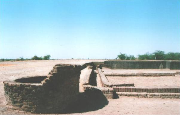 an ancient well and the city drainage canals in Lothal (India)